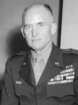 Hanford “Jack” MacNider (October 2, 1889–February 18, 1968) was a United States diplomat and United States Army General, serving in both World War I and World War II. He was a Scottish Rite Freemason.